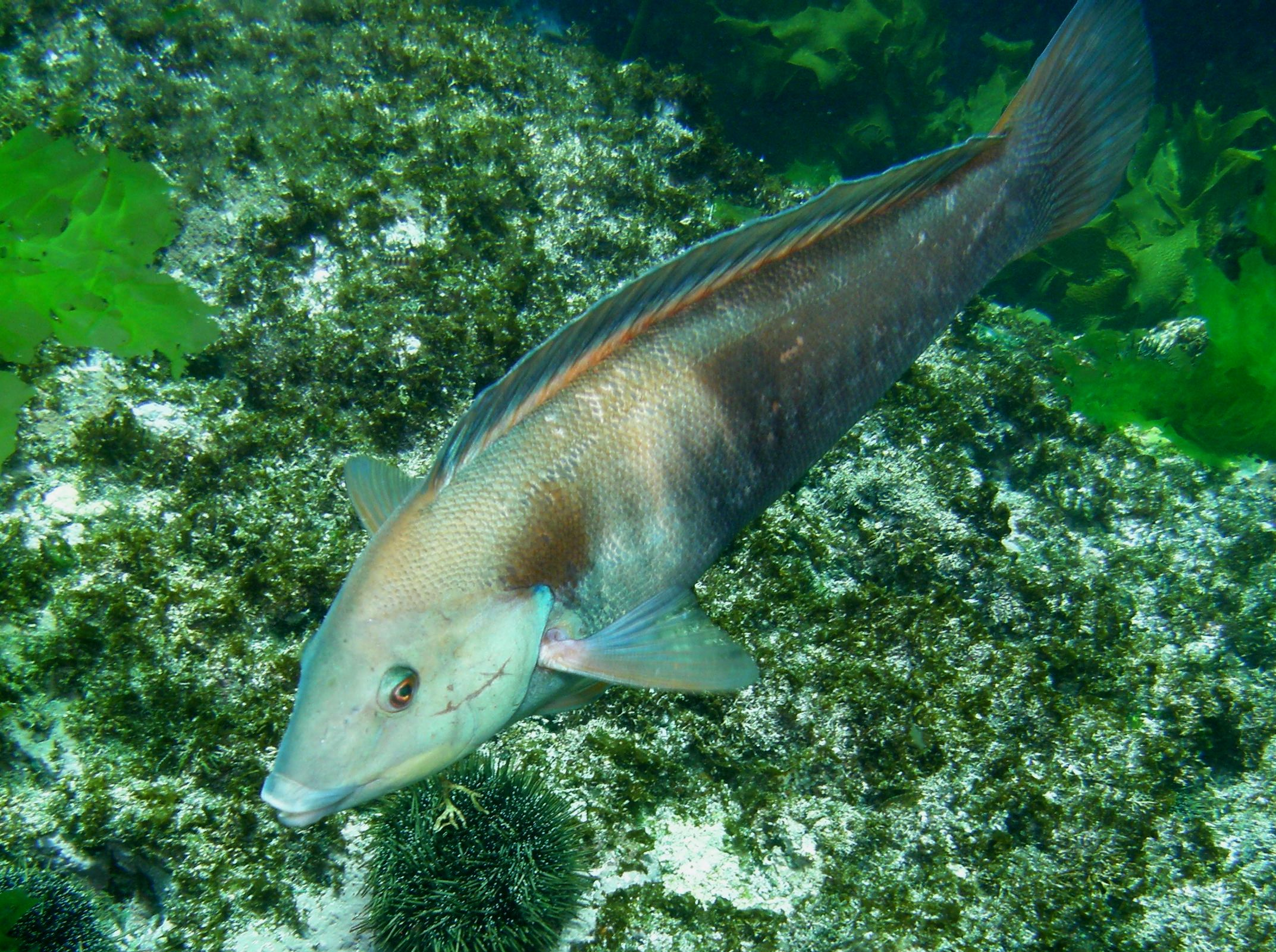 Coris sandeyeri - Sandagers Wrasse - Female - Poor Knights Islands